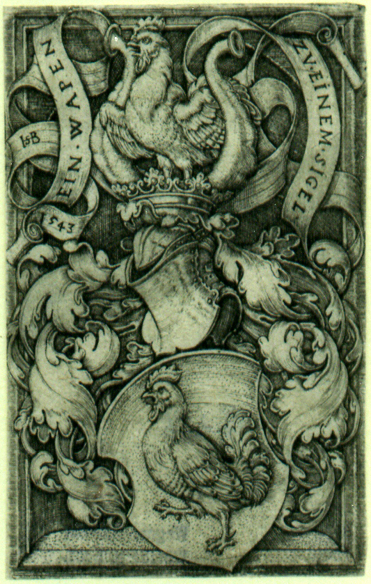 Beham, (Hans) Sebald (1500-1550): Coat of Arms with a Cock (B., Holl. 256; P. 267, ii/ii, with five rows of feathers on the cock’s chest) 1543. Sheet: 2 3/4 x 1 7/8 inches (70.0 x 47.7 mm ). Engraving printed on laid paper, the second (final) state, in good condition.